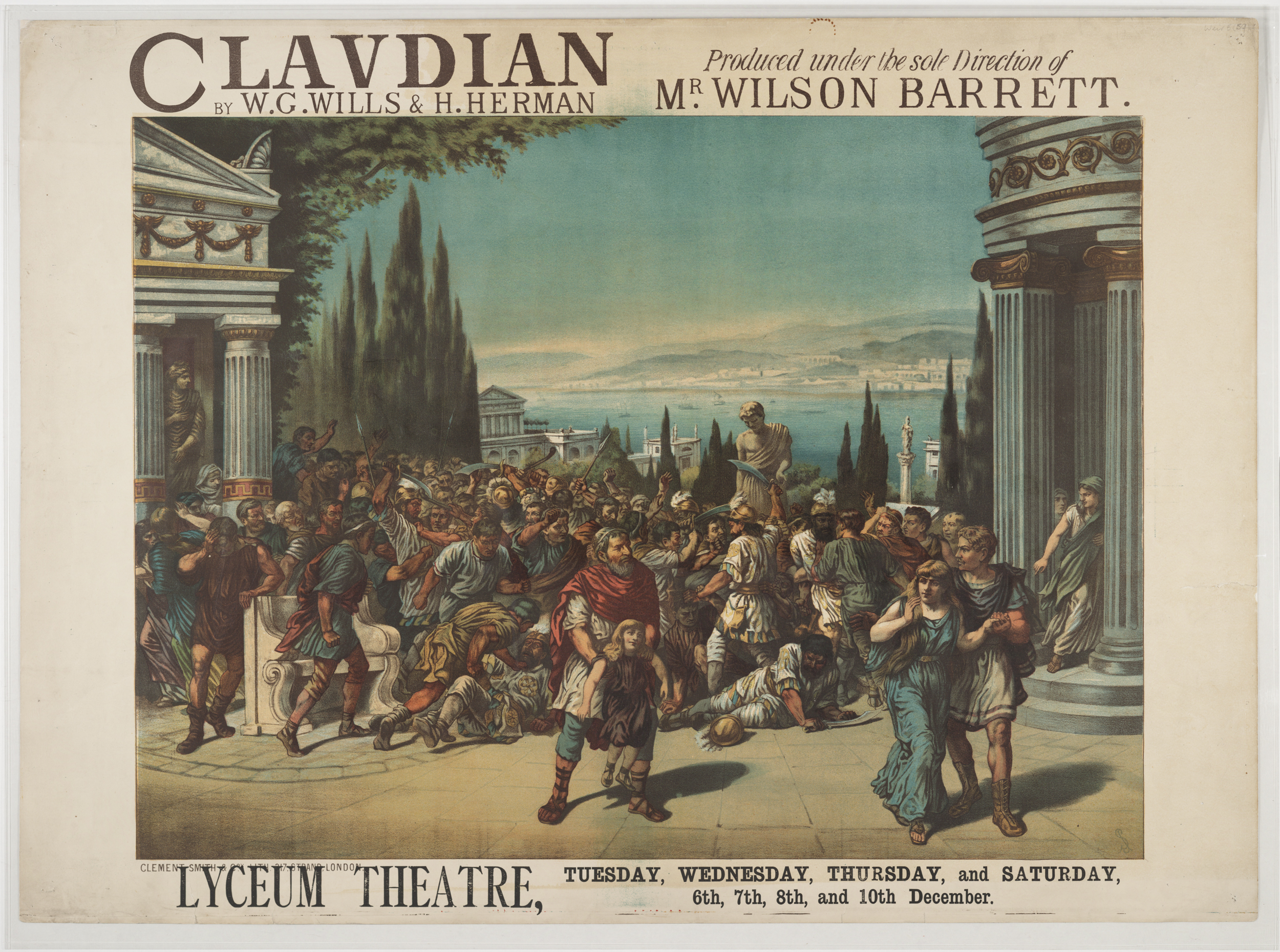 'Claudian' by W. G. Wills & H. Herman. Produced under the sole Direction of Mr Wilson Barrett. Tuesday, Wednesday, Thursday and Saturday, 6th, 7th, 8th, and 10th December. Printed by Clement-Smith & Co[mpan]y, Lithographer, 317 Strand, London.